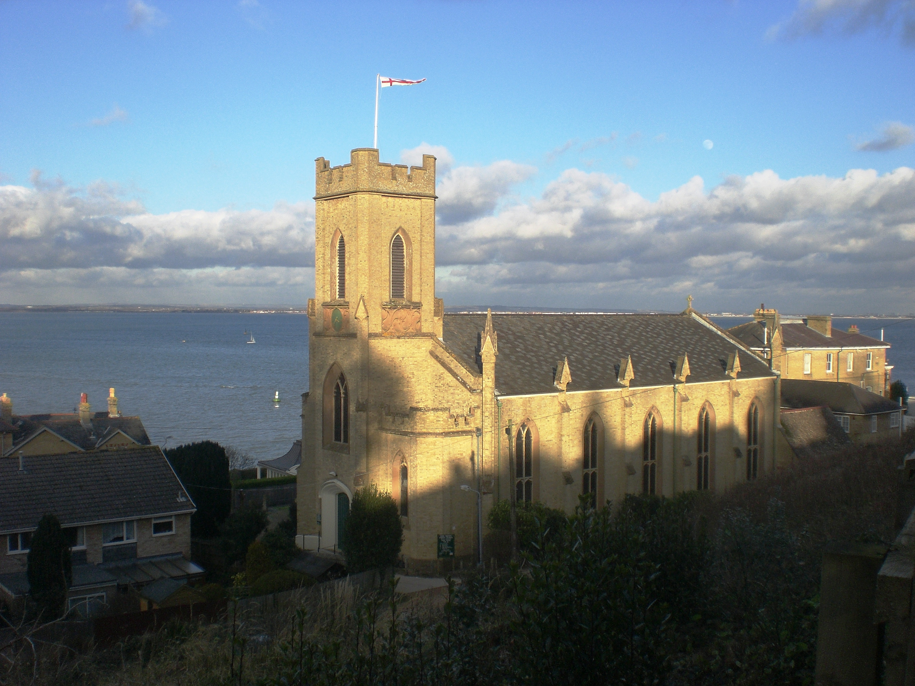 A view over the Holy Trinity Parish Church in Cowes on the Isle of Wight.